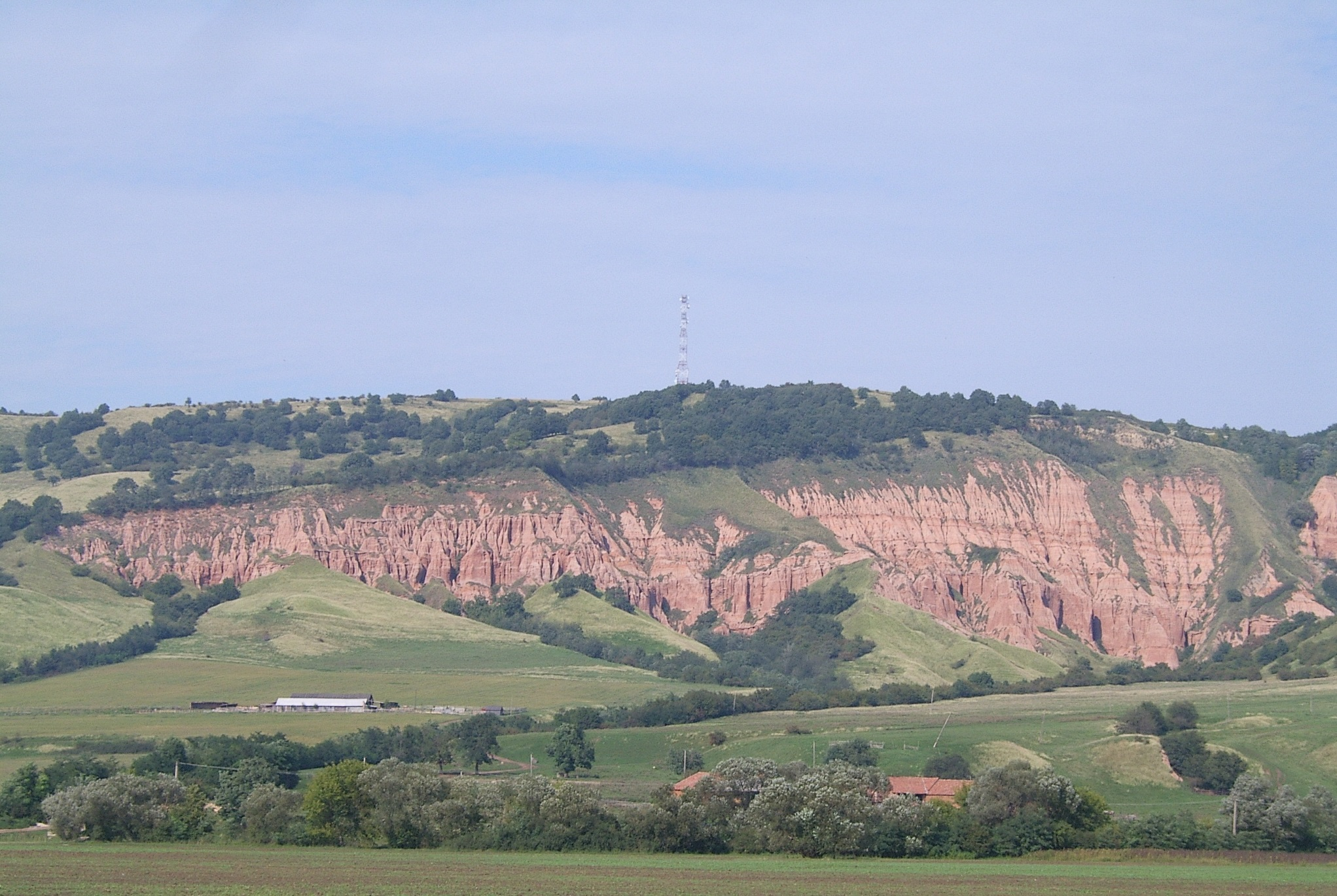 Râpa Roşie, Romania.